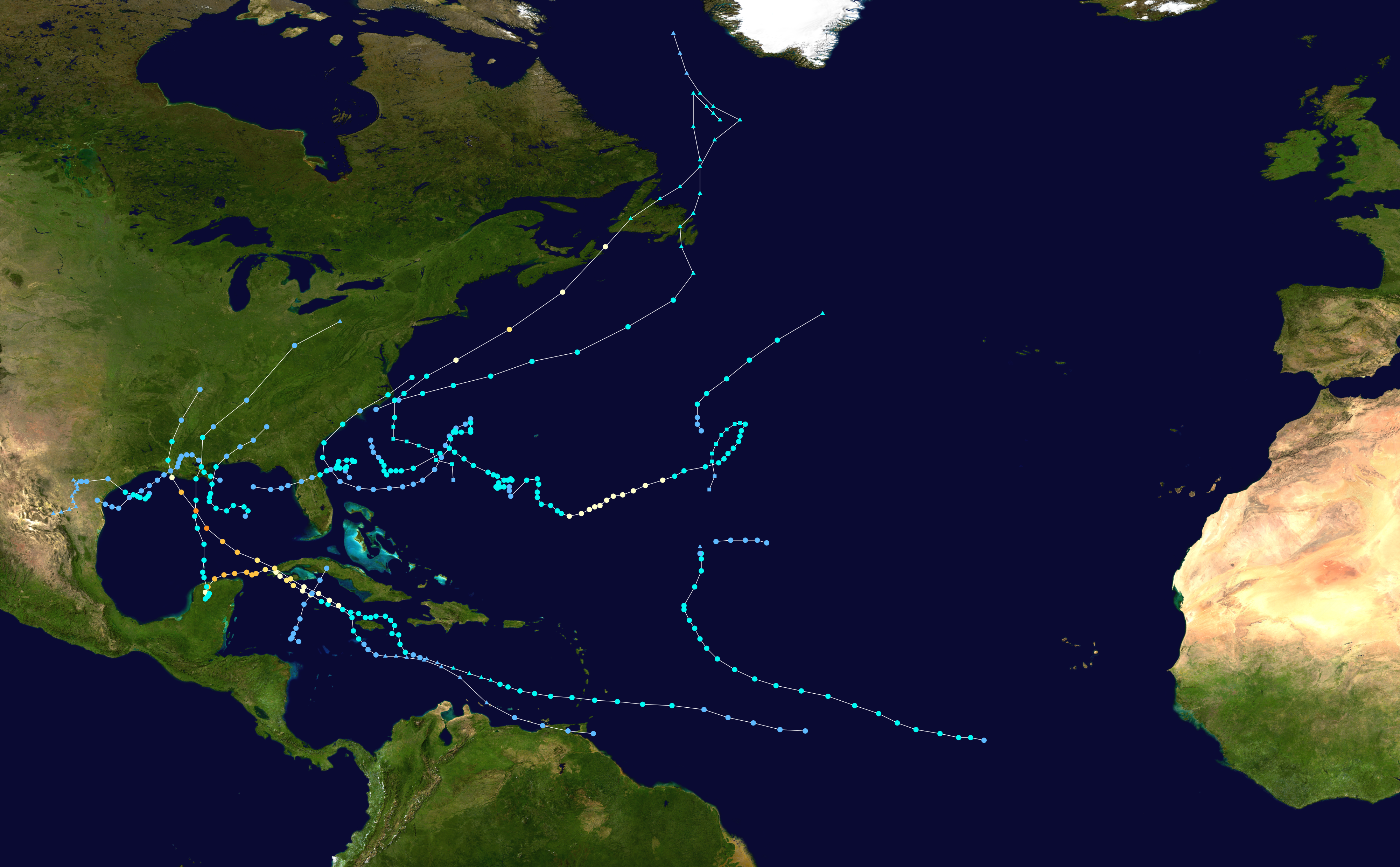 This map shows the tracks of all tropical cyclones in the 2002 Atlantic hurricane season. The points show the location of each storm at 6-hour intervals. The colour represents the storm's maximum sustained wind speeds as classified in the Saffir-Simpson Hurricane Scale (see below), and the shape of the data points represent the type of the storm. Saffir–Simpson scale Tropical depression≤38 mph≤62 km/h Category 3111–129 mph178–208 km/h Tropical storm39–73 mph63–118 km/h Category 4130–156 mph209–251 km/h Category 174–95 mph119–153 km/h Category 5≥157 mph≥252 km/h Category 296–110 mph154–177 km/h Unknown Storm type Tropical cyclone Subtropical cyclone Extratropical cyclone / Remnant low / Tropical disturbance / Monsoon depression